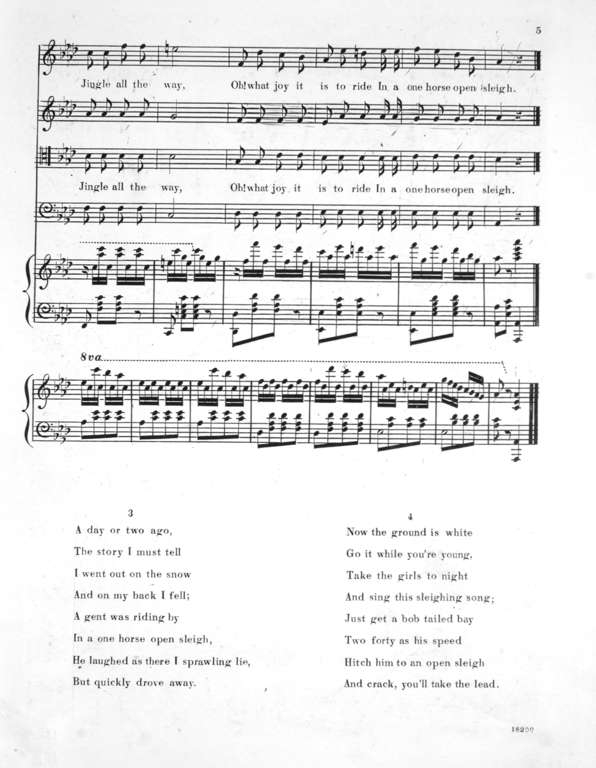 Musical notation of "One Horse Open Sleigh", last page